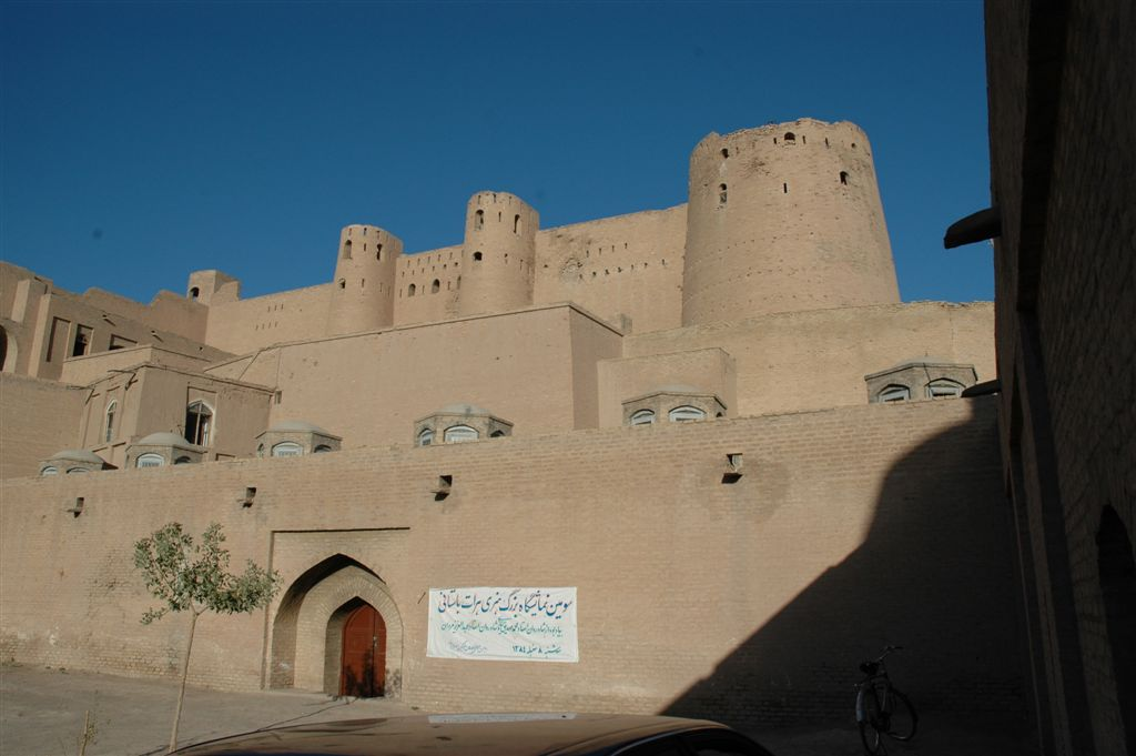 A still standing citadel built by the ancient Greeks of Alexander. In Herat, Afghanistan.